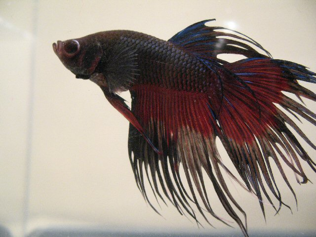 Un betta splendens crowntail